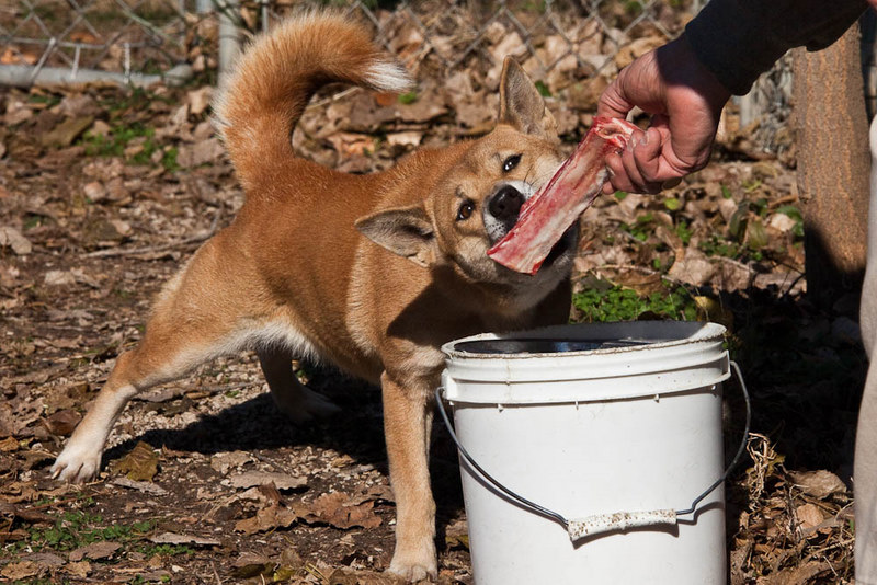 Jonah After a Bone